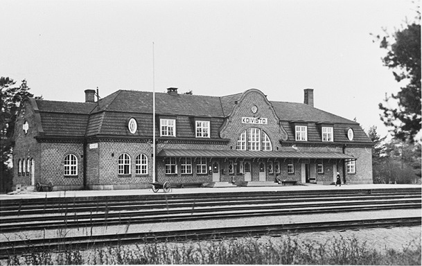 Railway station building Koivisto.